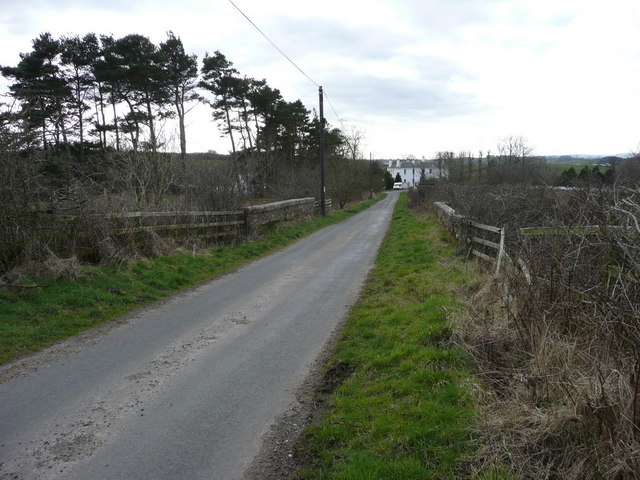 Trabboch House The road leading to Trabboch House and the bridge over the railway.